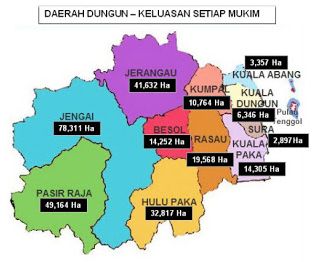 Peta Dungun mengikut Mukim dan keluasannya